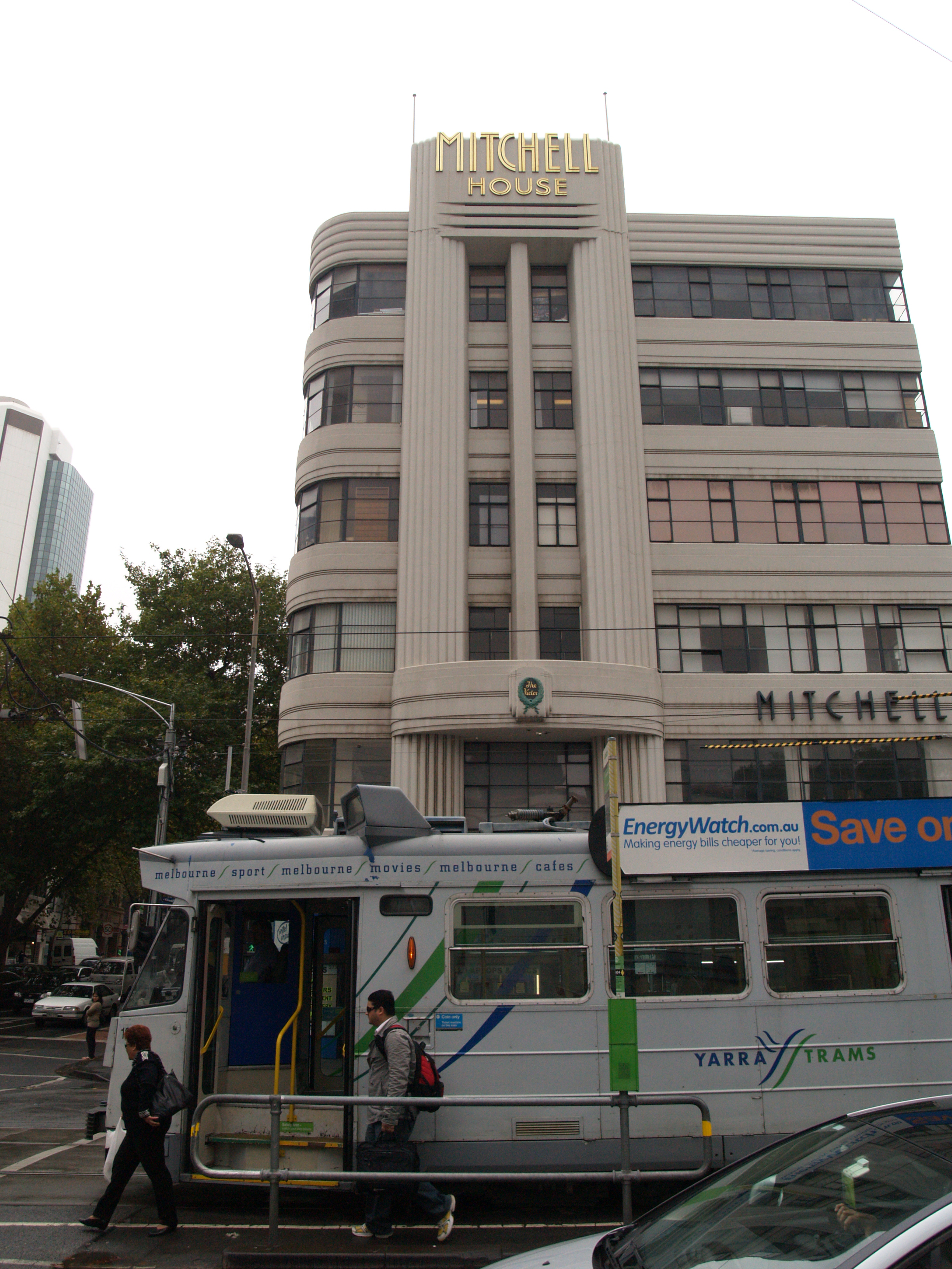 Building by Harry Norris